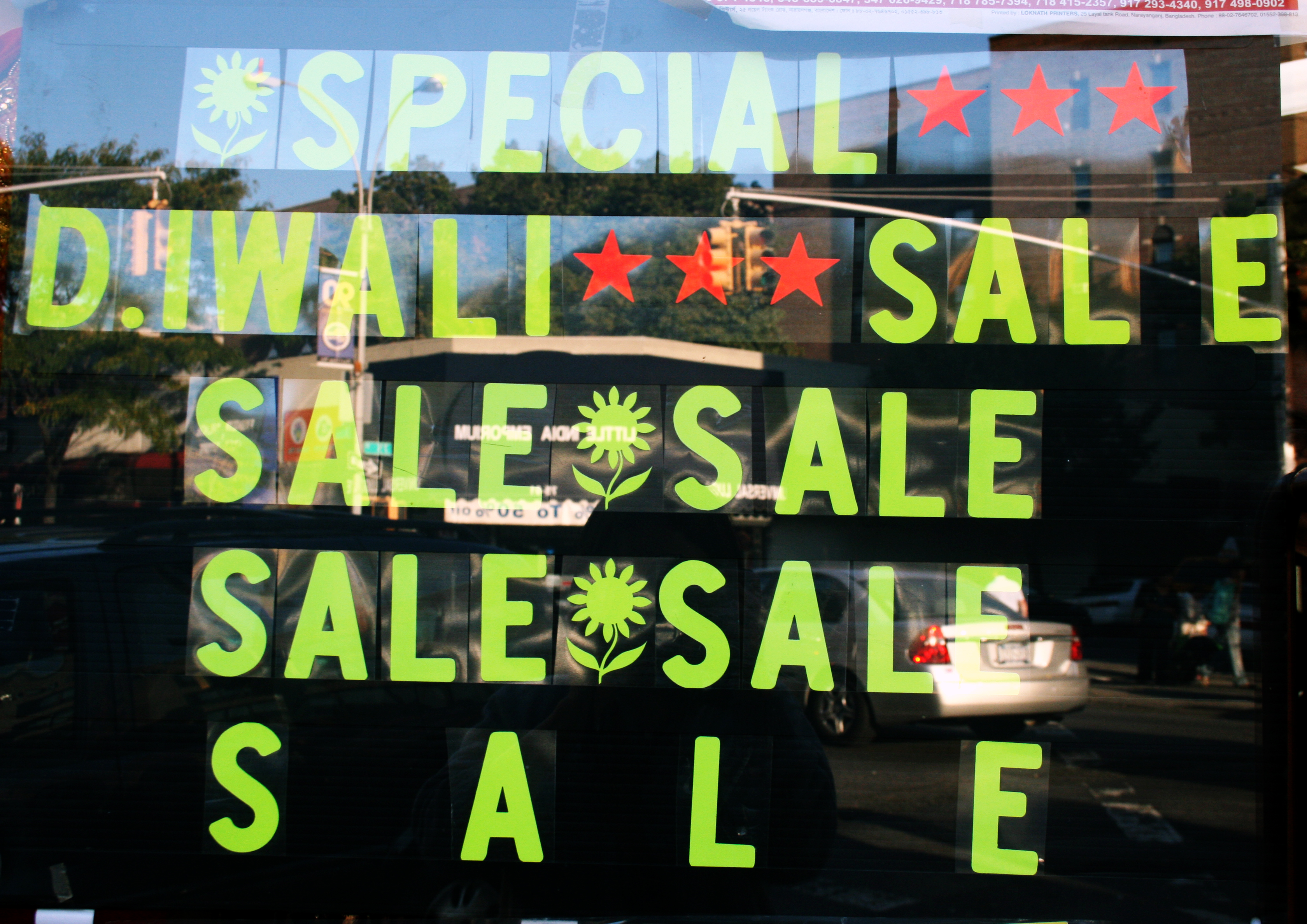 Diwali season is a major shopping season in India. The sale of gold jewellery, cars, clothing etc peaks around Diwali.